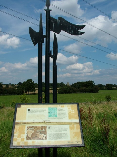 Battlefield 1403 nr. Shrewsbury New sign and plaque added as the site gets a makeover.